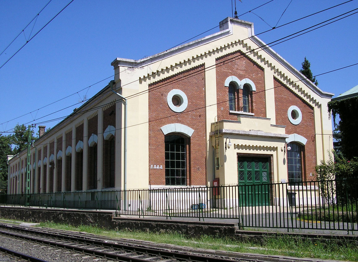 The building of old waterworks in Budapest, Hungary